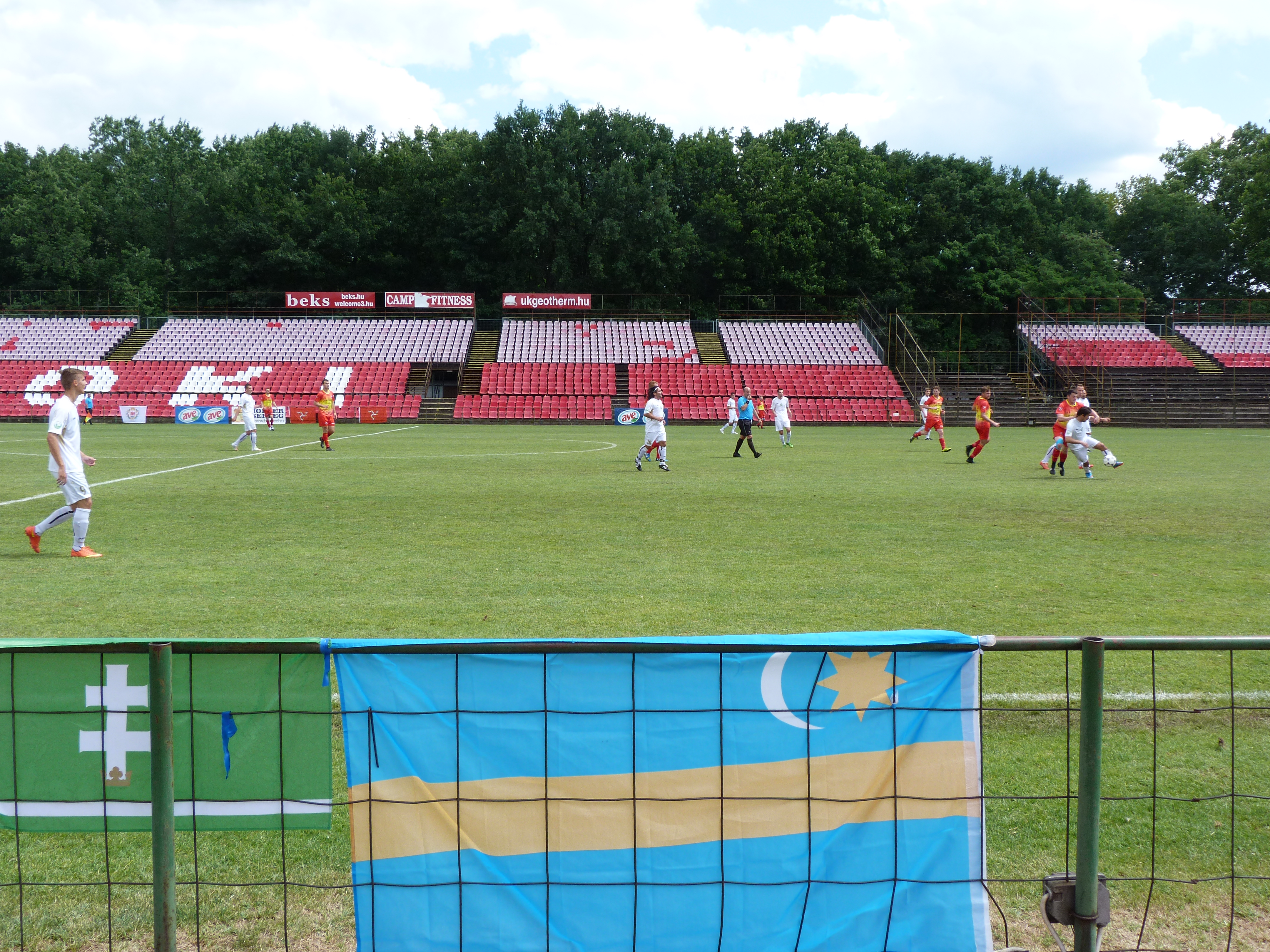 Live in Debrecen, Hungary. 21st of June, 2015. Europe Cup - Confederation of Independent Football Associations, ConIFA. Ellan Vannin - Felvidék. ©© Derzsi Elekes Andor, Budapest, 2015, Published in the Metapolisz DVD line. You are authorised to use this photo under Creative Commons – even for commercial, for profit purposes. The photo must be attributed to Derzsi Elekes Andor. All of the photos and vids in the Metapolisz DVD line are under Creative Commons and can be used even for commercial – for profit – purposes. Recommended Citation Derzsi Elekes Andor: Metapolisz DVD line